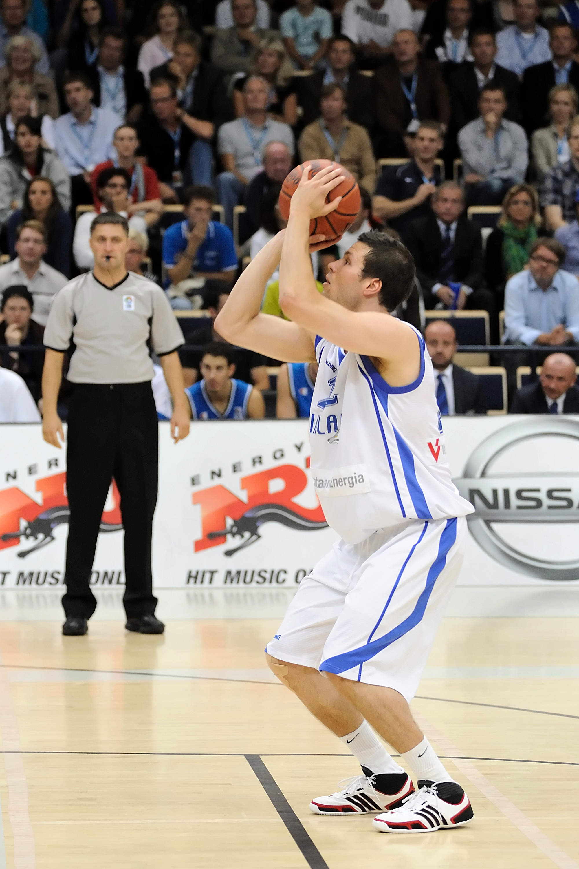 Basketball player Vesa Mäkäläinen playing for Finland against Italy at Energia Areena in Vantaa, Finland.